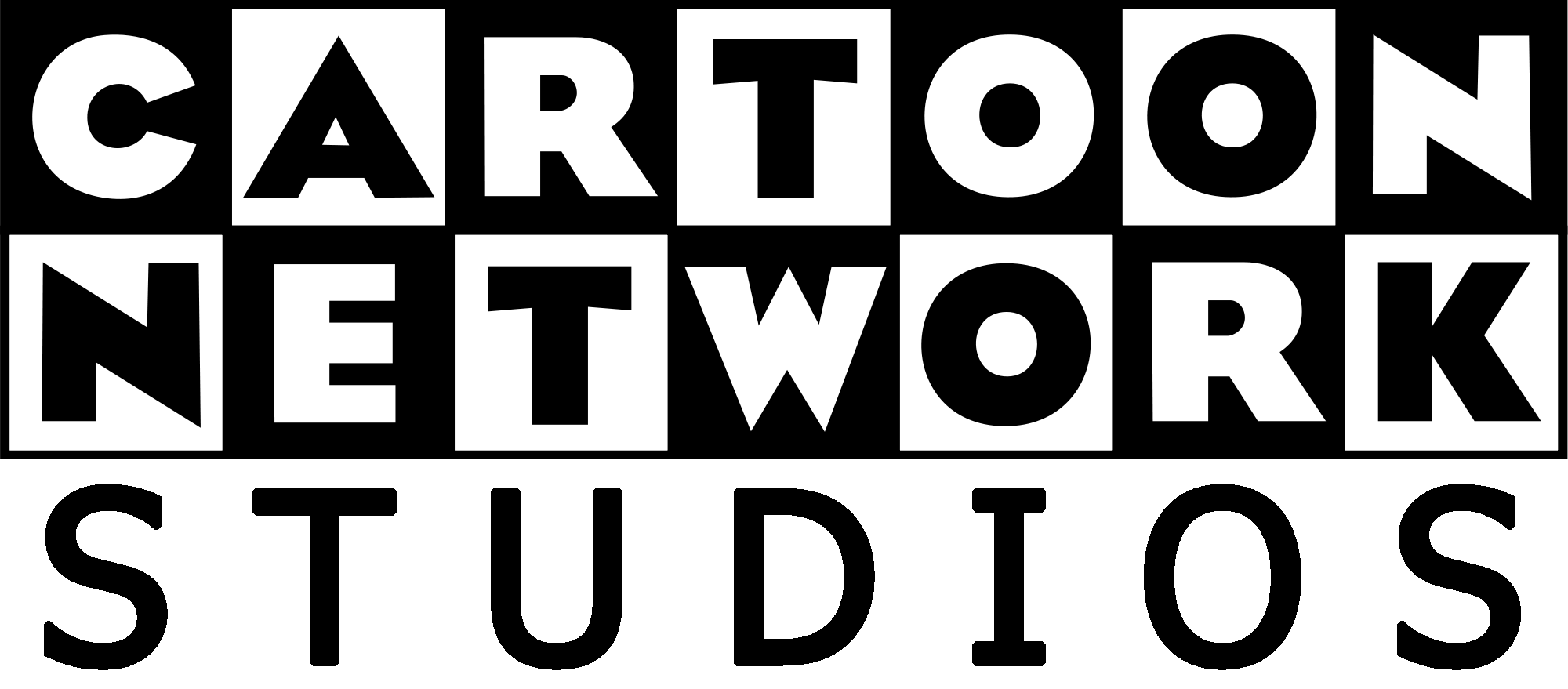 The first variant of the first Cartoon Network Studios' logo.